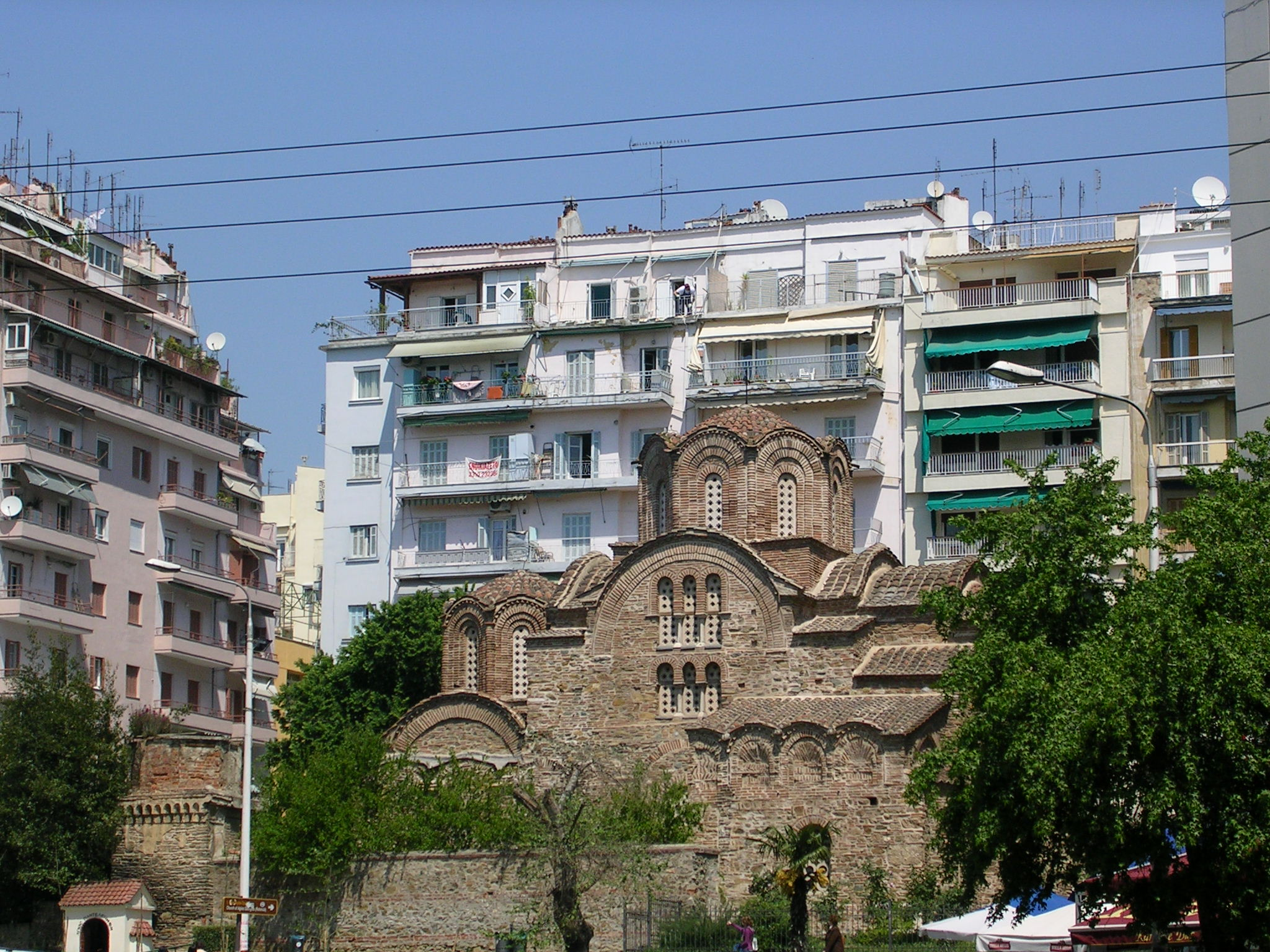 The Byzantine Church of Saint Panteleimon of the City, Thessaloniki